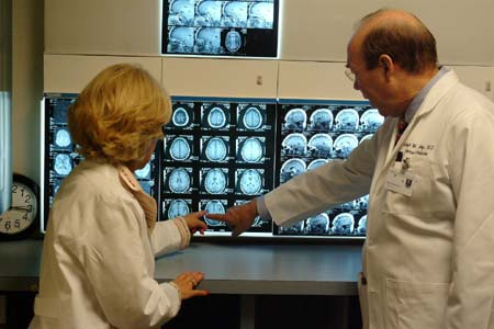 Dr. Sandra Bond Chapman and a collegue at the Center for BrainHealth